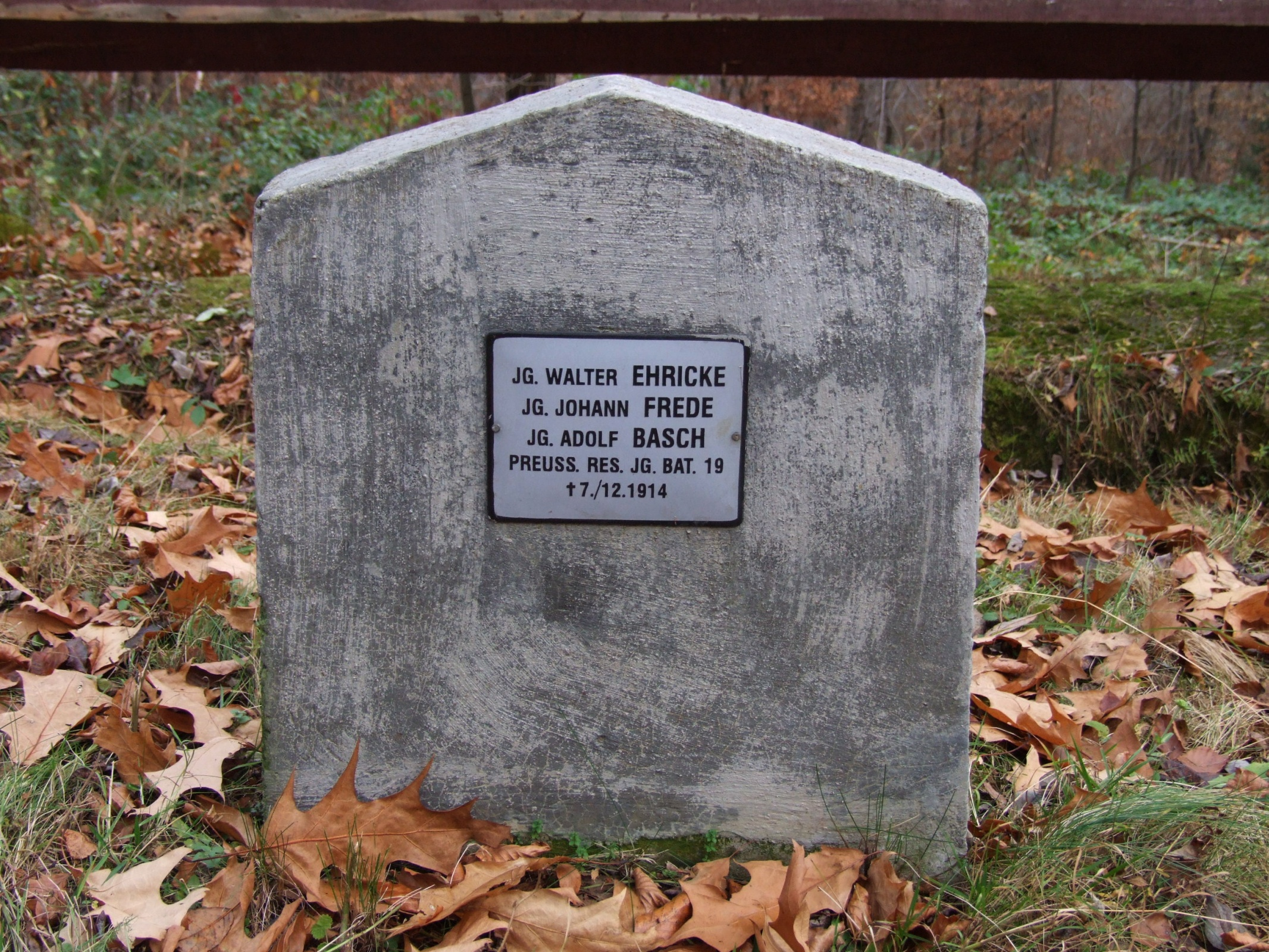 World War I Cemetery nr 300 in Rajbrot-Kobyła